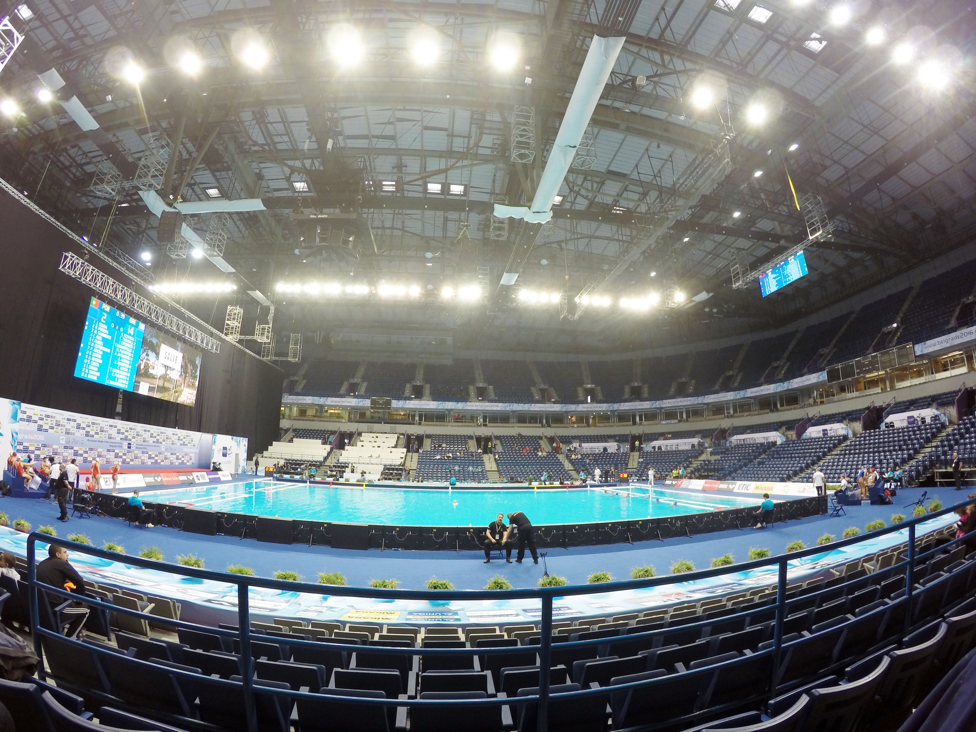 European Water Polo Championship - Day 1 (Portugal - Greece) After half-time: Portugal - Greece 2 - 14